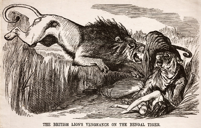 The British Lion's Vengeance on the Bengal Tiger. Punch, 33 (22 August 1857): 76-77.